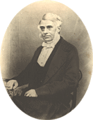 Joseph Charles Philpot (1802-1869)